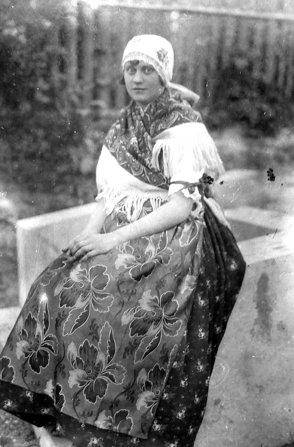 Folk costume of silesian region of Hlucin